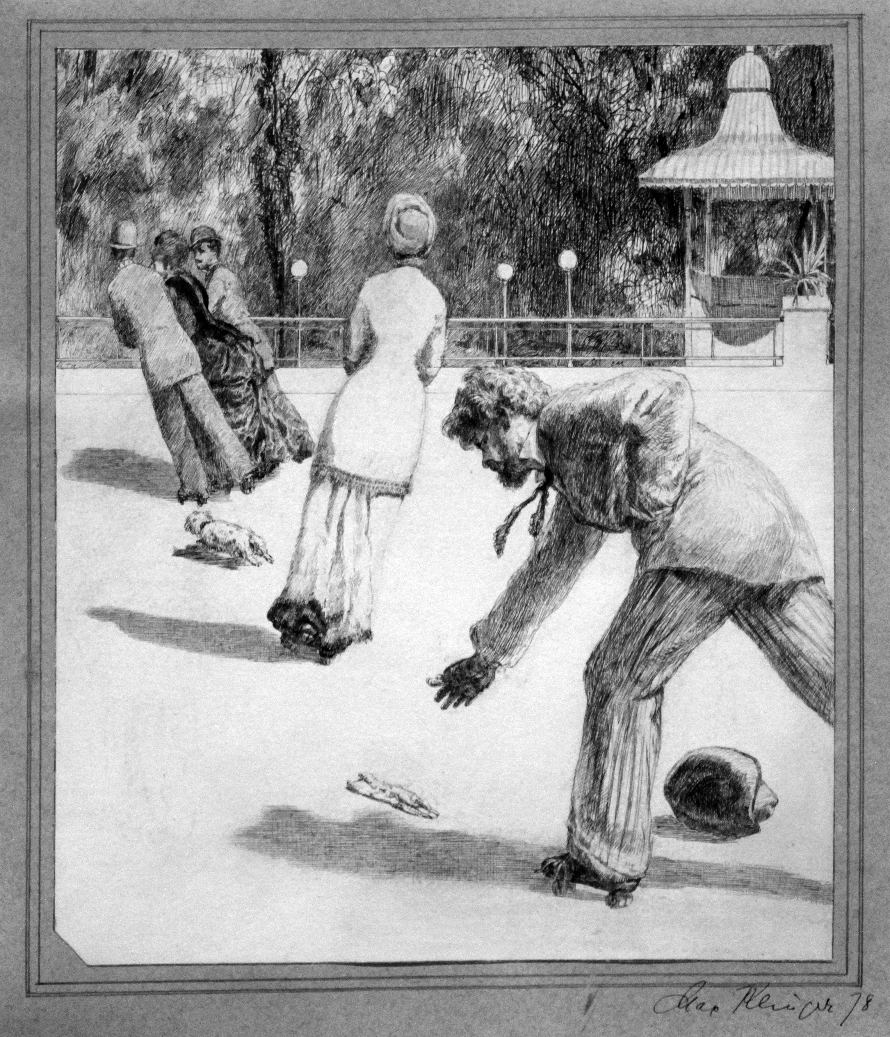 Fantasies about a found glove, dedicated to the lady who lost it (2/10: Act)